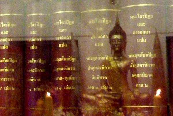 Pāli Canon (Tripiṭaka)in Ubosot of Wat Kungtaphao Location: Wat Khung Taphao Ban Khung Taphao, Khung Taphao subdistrict, Mueang Uttaradit, Uttaradit Province, Thailand.